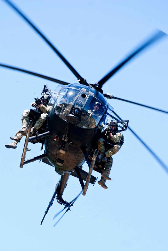 Soldiers from the 75th Ranger Regiment descend in an MH-6 Little Bird helicopter flown by pilots from the 160th Special Operations Aviation Regiment, into a staged firefight during an exercise demonstrating the range of U.S. Army Special Operations capabilities for the Joint Civilian Orientation Conference on April 28, 2010, at Fort Bragg, N.C.